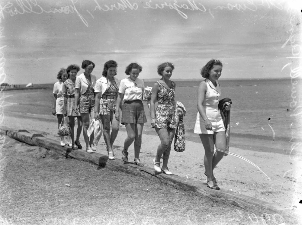 Young women taking a walk along the beach, 1939.